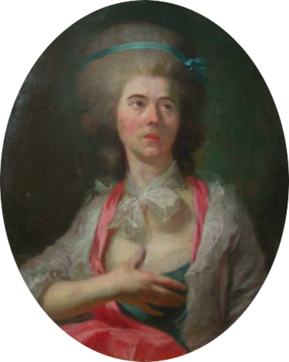 Portrait of Françoise-Augustine Duval d'Eprémesnil, by Vigée-Lebrun.